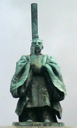 Statue of Emperor Kameyama located at Higashi Park in Fukuoka City, Fukuoka, Japan. cropped version.